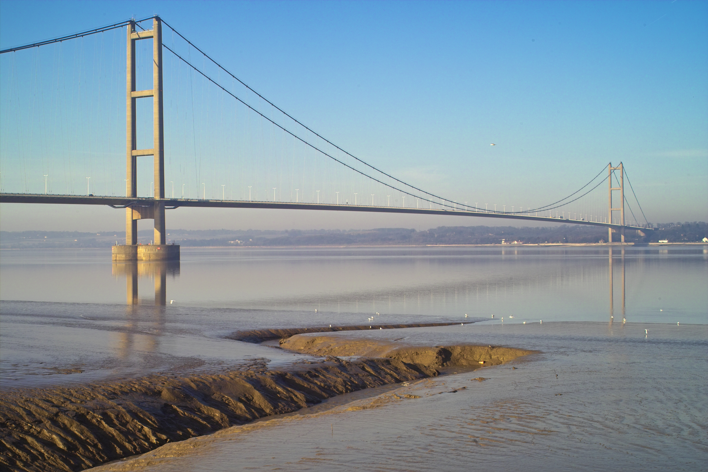 The Humber Bridge near Hull, East Riding of Yorkshire, England.Taken from Barton-upon-Humber, Lincolnshire. Photo taken with Schneider - Kreuznach Curtagon 28mm f4 mounted on Sigma SD-9.